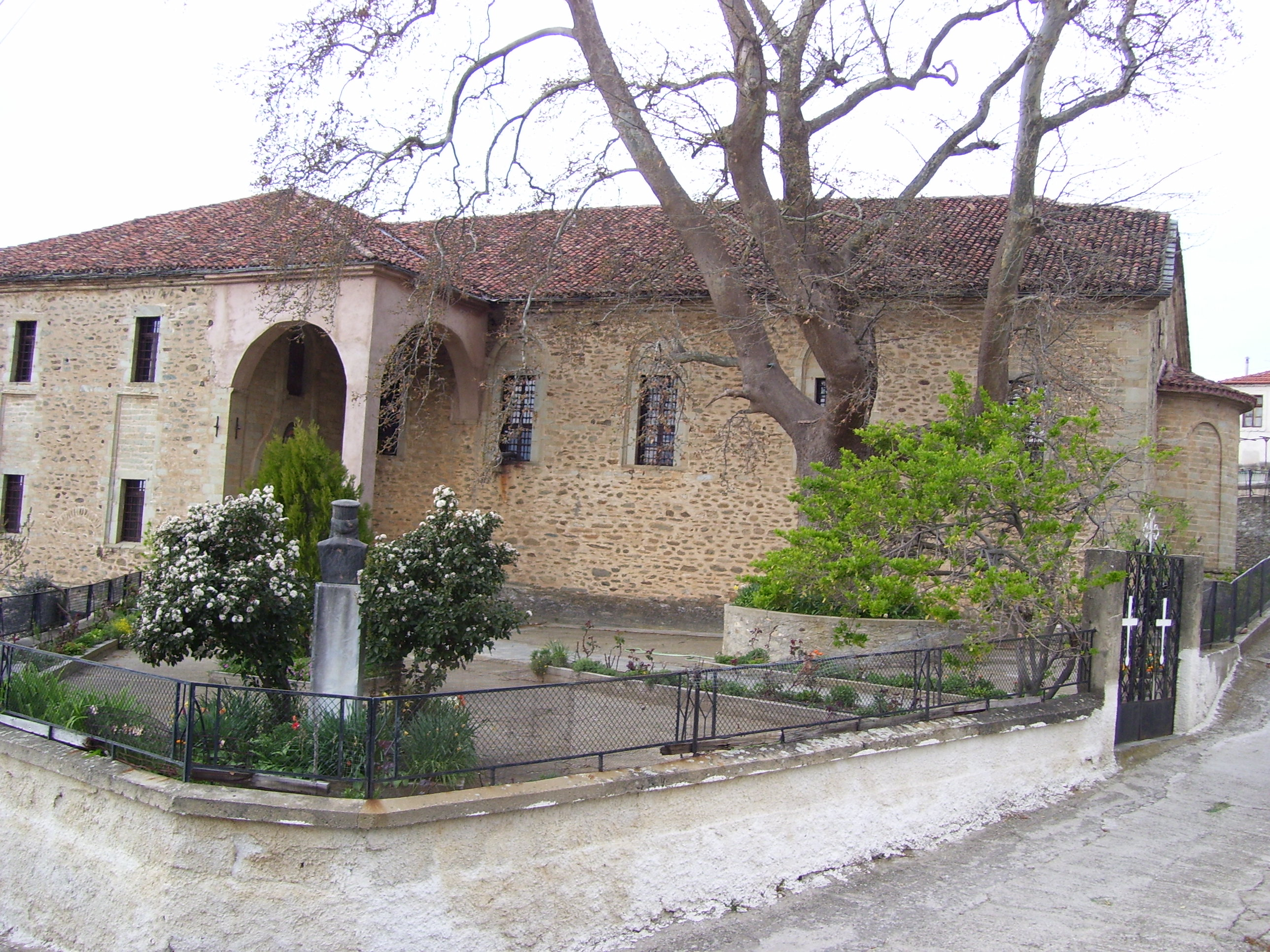 Church in the village of Vasiliada, Kastoria prefecture, Greece.